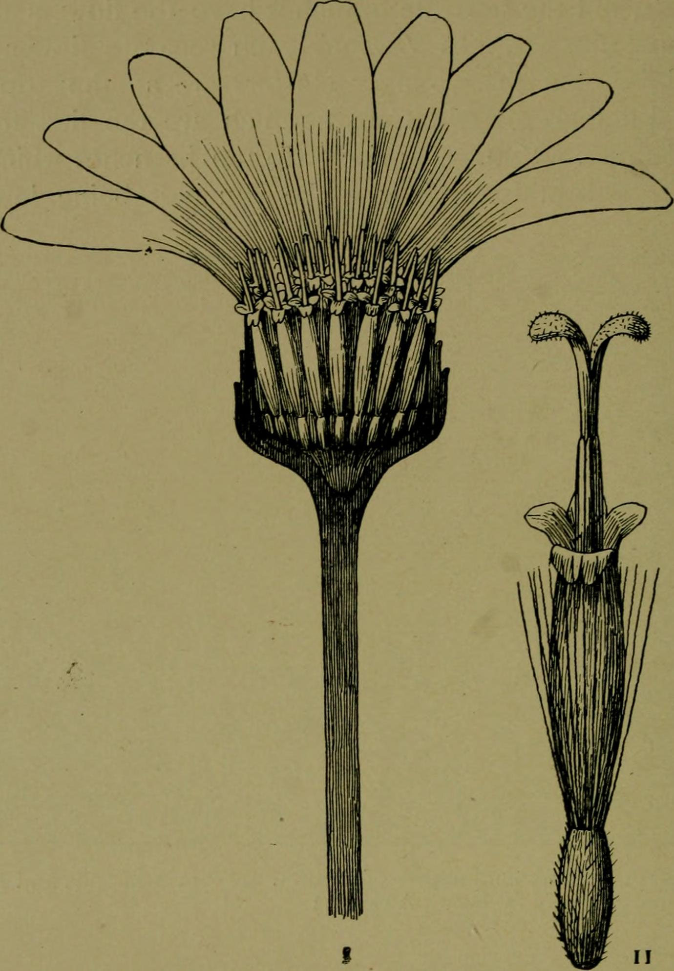 Title: Plants and their ways in South Africa Year: 1915 (1910s) Authors: Stoneman, Bertha, 1866- Subjects: Plants Publisher: London, Longmans, Green Text Appearing Before Image: Fig. 143.^Compound umbel of Bubon. (From Edmonds and Marloths Elementary Botany for South Africa .) on the stem. In other umbels of this order the central flowersopen first. The simple umbel oi Nerine (Fig. 142) is definite, as theyare in Asclepias, Hydrocotyle, Sparmannia. (The youngestflowers in the Sunflower family are always at the centre but inScabiosa the heads are cymose. These definite umbels mayconsist of condensed clusters of cymes as in Agapaiithus. The garden Foxglove sometimes, instead of rearing statelyracemes of flowers, has a large terminal flower which looks likeseveral joined into one (peloria). This stops the growth of 10 * 148 Plants and their Ways in South Africa the main shoot which then sends out late all shoots with cymoseracemes. Text Appearing After Image: Fig. 144.—Gerbera asplenifolia, Spr. I. Section through head. II. Diskfloret. (From Edmonds and Marloths Elementary Botany for SouthAfrica.) Flower Arrangements. General Method. Kinds of Clusters. Indefinite . . . Spike—Catkin : deciduous, pistillate and staminate flowers; Oak.Spadix : fleshy spike ; Arum.Cone: parts hard and woody ;Fir, Leucadendron. Flowers and their Parts 149 General Method. Usually indefinite Definite . Mixed Kinds of Clusters.. Raceme—Corymb: more or less flat-topped ; Ornithogalum.Panicle: branched stalks;Grasses.Umbel—Simple : Hydrocotyle (definite.) Compound: Daucns.Capitulum (or head)—Composites, Pro-tea.. Cyme—2-sided : dichasium, Spergula,Crassula.i-sided : cincinnus, Lohostemon,Heliotrope.. Cymose—(Heads and panicles)—Leonotis,Olive. Bracts.—In examining flower arrangements, the flowersare usually found protected by one or more leaf-like bodies,green or coloured, whichmay have been mistakenfor the calyx. In G/a-diolus^ Antholyza, andtheir